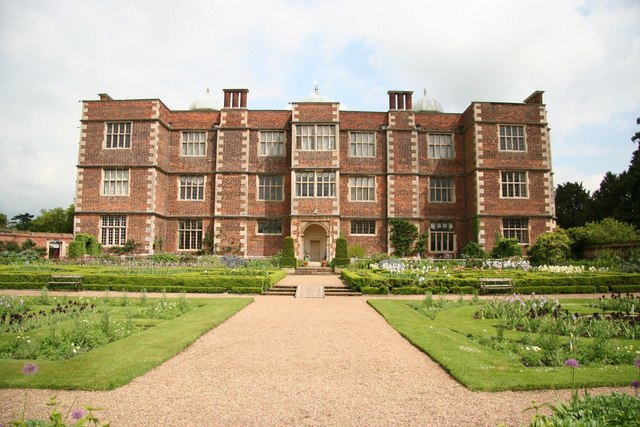 Doddington Hall, near to Doddington, Lincolnshire, Great Britain. The west front of Doddington Hall